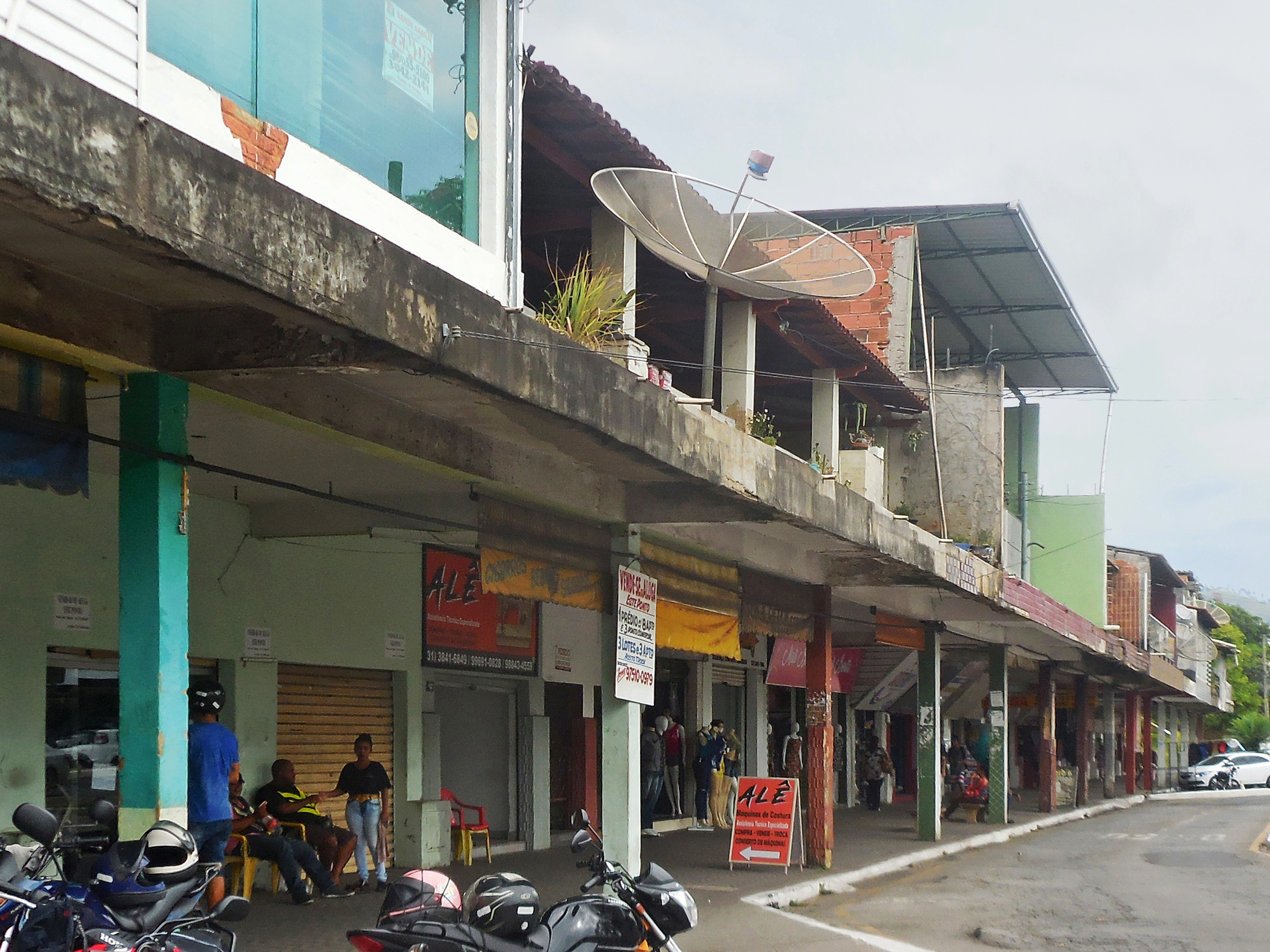 Shops in the old bus station of Coronel Fabriciano, Minas Gerais, Brazil.